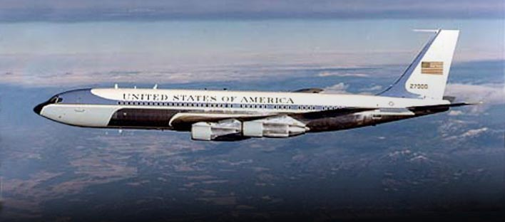 VC-137 Stratoliner (Air Force One), history spotlight graphic